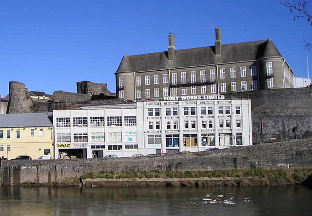 Carmarthen Castle and County Hall The recently refurbished front of Towy Works, a traditional builder's merchant is shown in front.